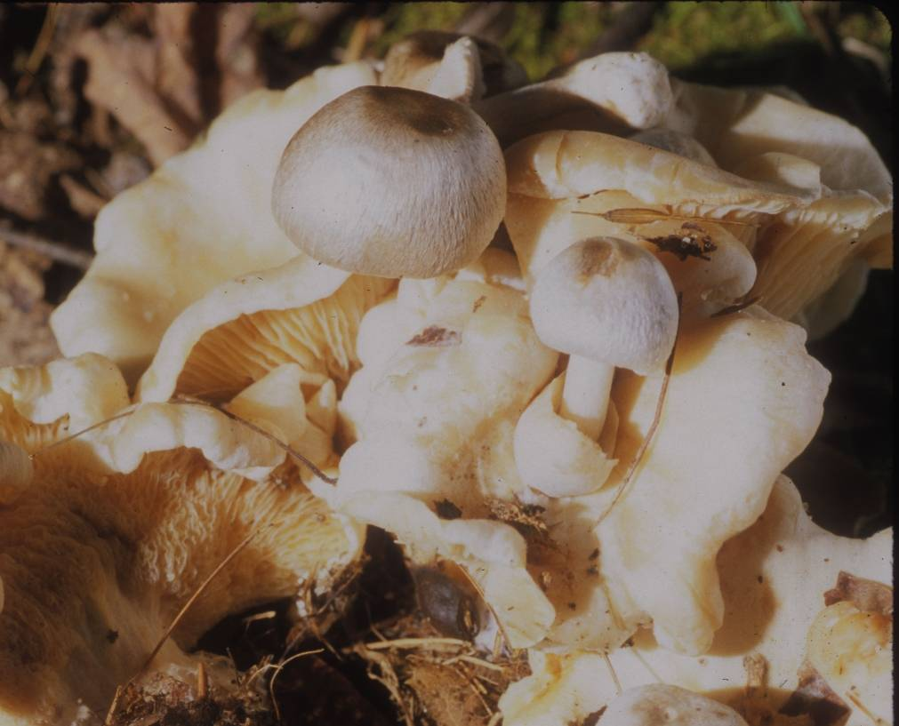 Fruit bodies of the mycoparasitic fungus Volvariella surrecta (Knapp) Singer, growing on the fruit body of a Clitocybe, probably Clitocybe nebularis. Photographed in Cook Forest State Park, Pennsylvania, USA.